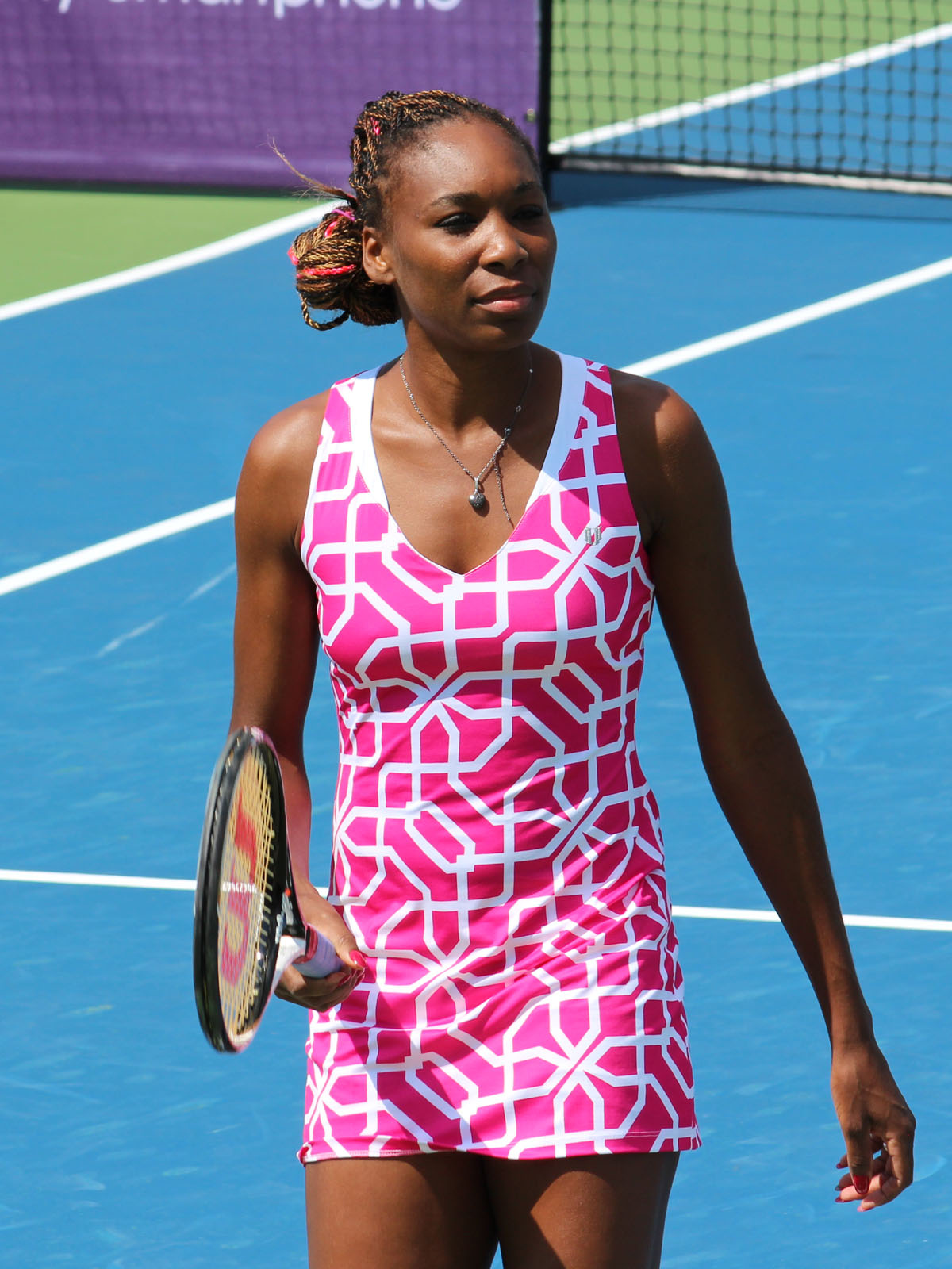 Venus at the Western and Southern Open